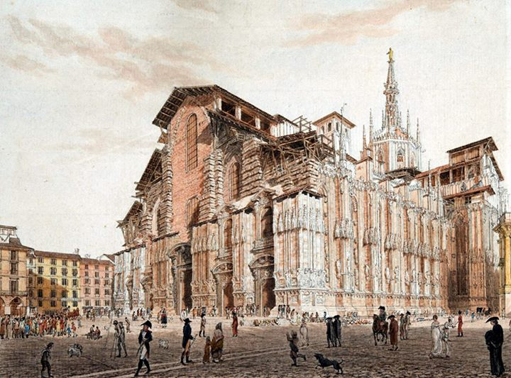 Milan, the duomo in the 1790s